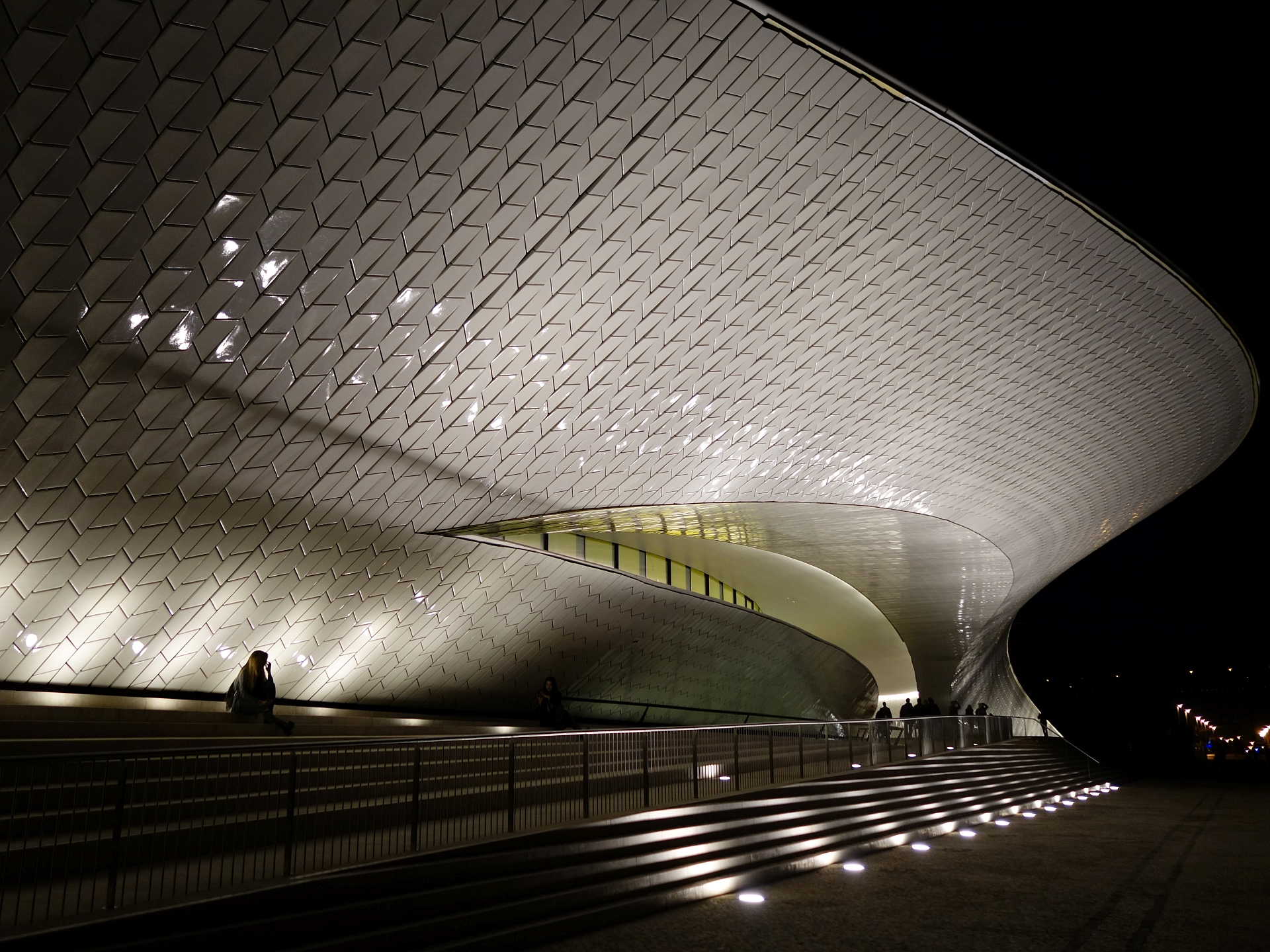 The shark has yellow teeth. MAAT (Museum of Art, Architecture and Technology), Lisbon. Designed by British architect Amanda Levete (b. 1955). Opened in 2016.